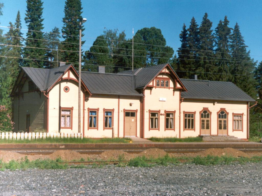 Railway station at Ii, Finland ("Ii" is the shortest palce name in Finland).